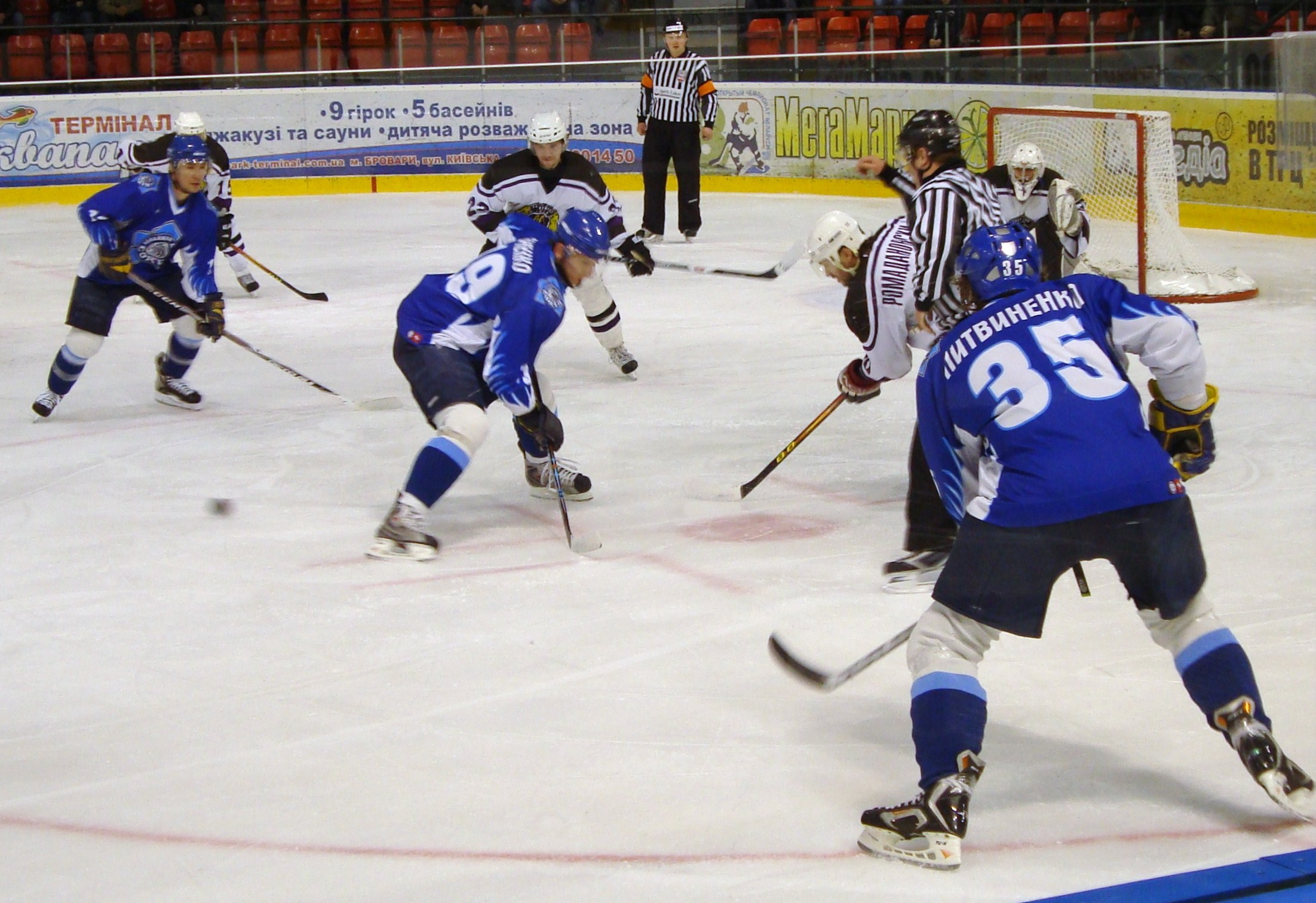 A face-off during the Belarusian Extraliga play-off Game 1 between Sokil Kyiv and Khimvolokno at Terminal on March 2, 2010 in Brovary, Ukraine. Sokil won the game 3-2.